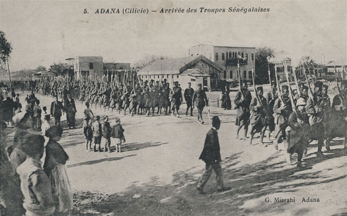 Senegalese troops marching into Adana